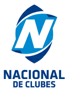 Logo of Campeonato Nacional de Clubes, an Argentine rugby union competition.